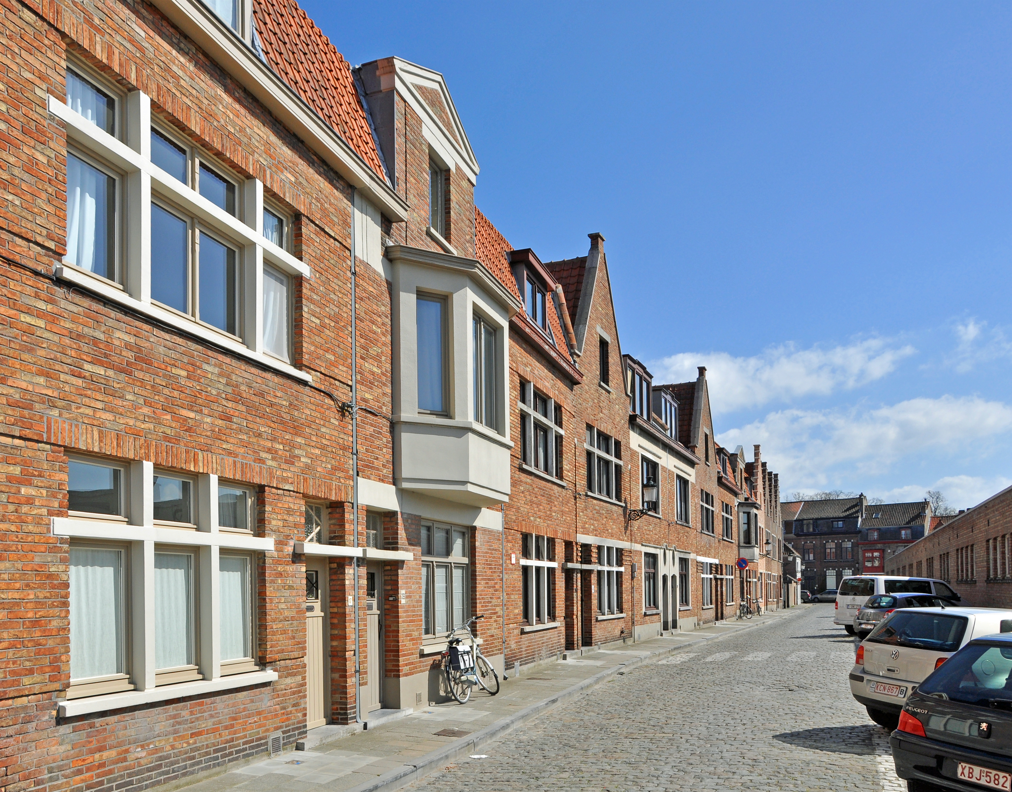 Bruges (Belgium): Jakobinessenstraat